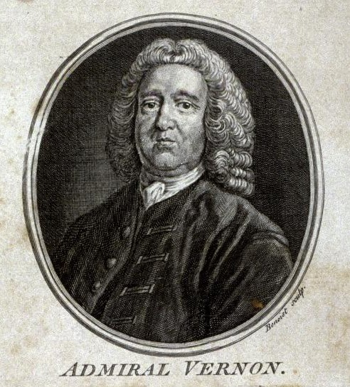 Edward 'Old Grog' Vernon (1684-1757), British admiral